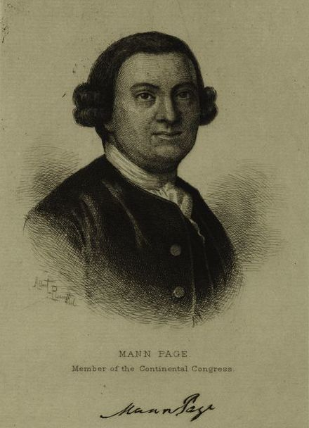 Mann Page